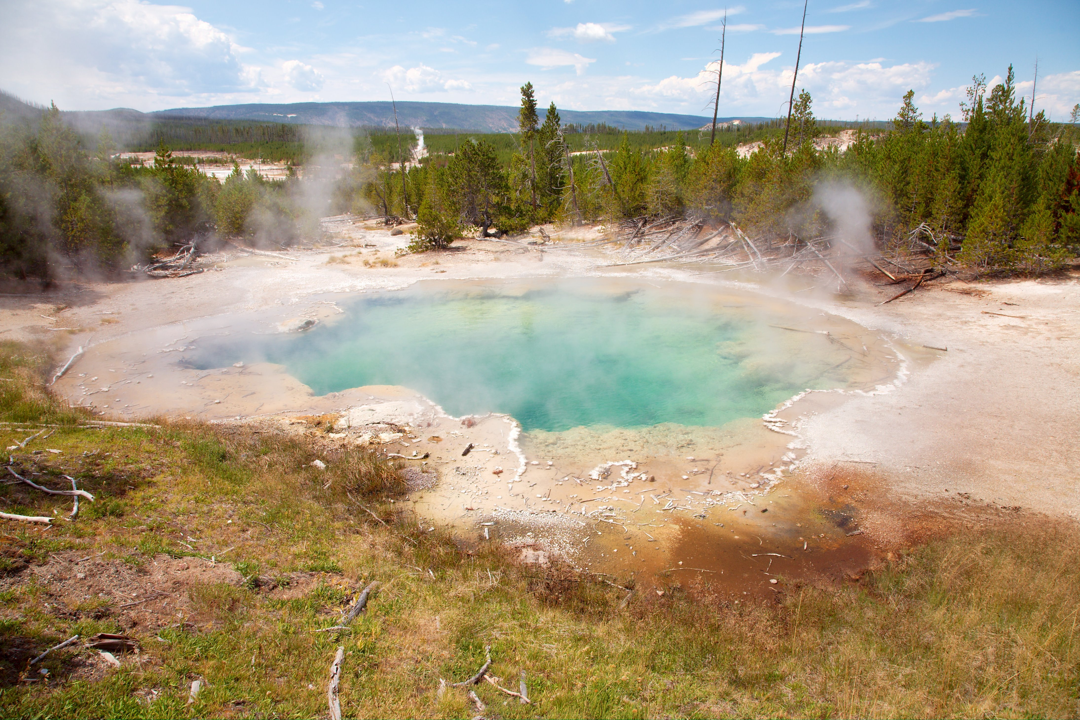 Emerald Spring, Norris Geyser Basin, Yellowstone National Park, Wyoming